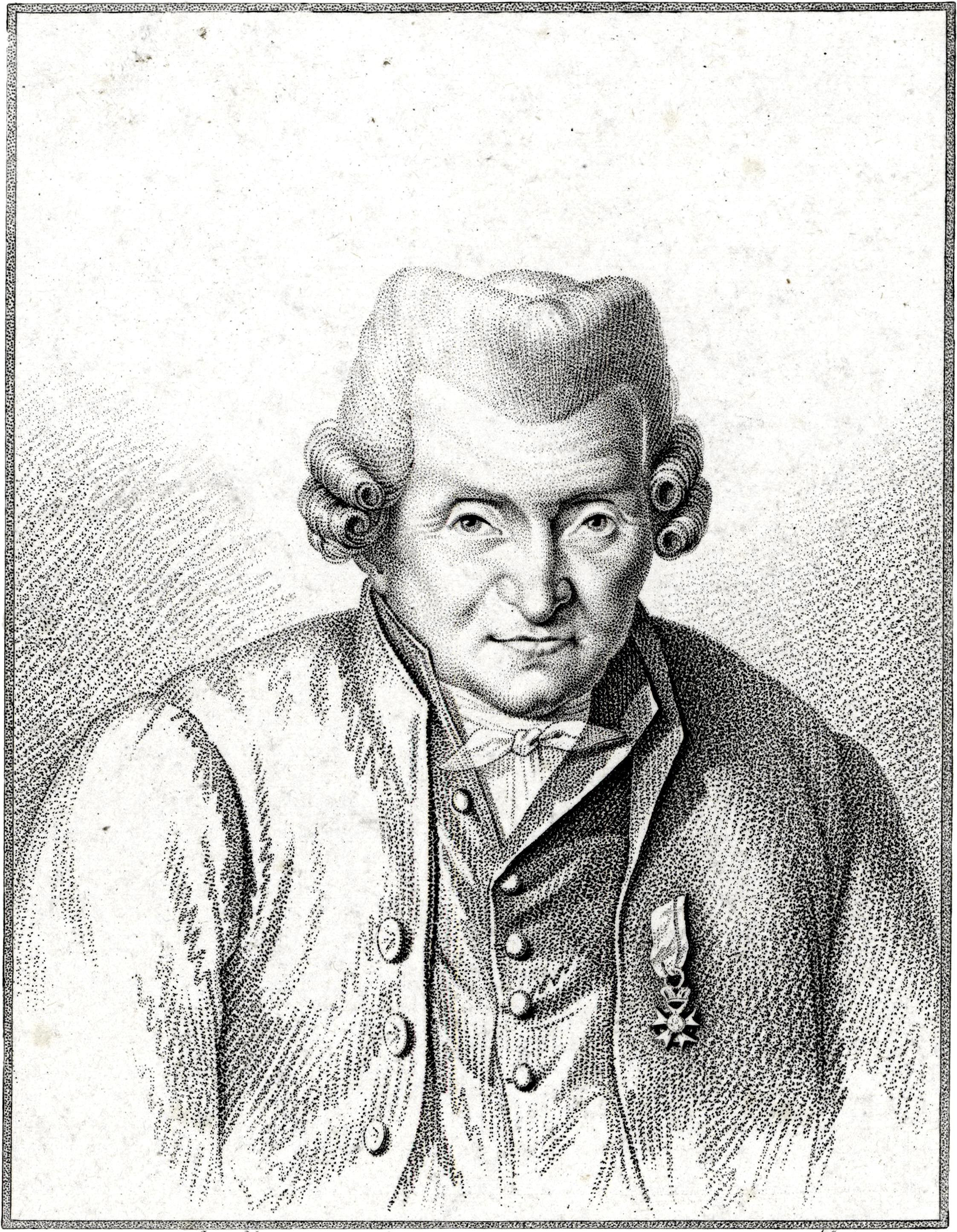 Portrait of André Morellet (1727–1819), French economist, Encyclopedist, translator and philosophe.